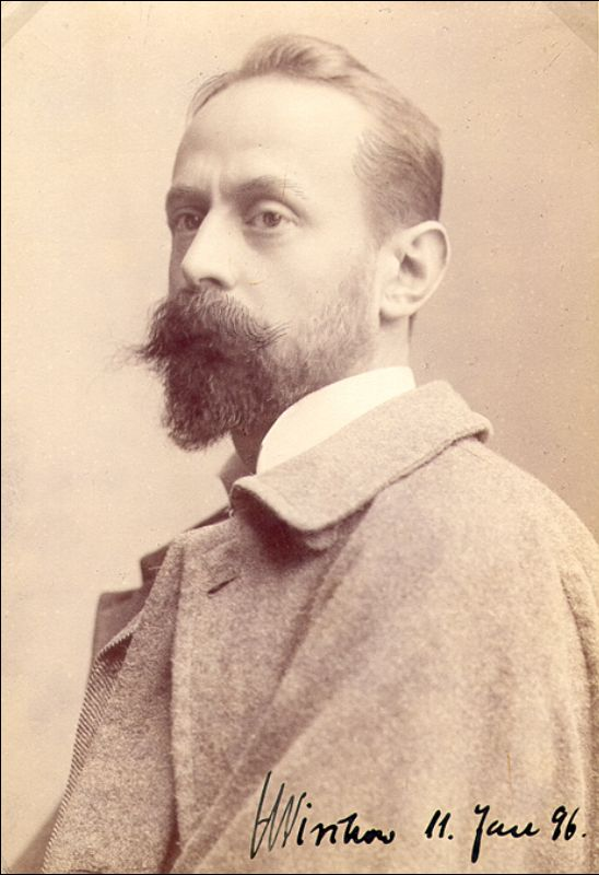 Hans Virchow, son of Rudolf Virchow